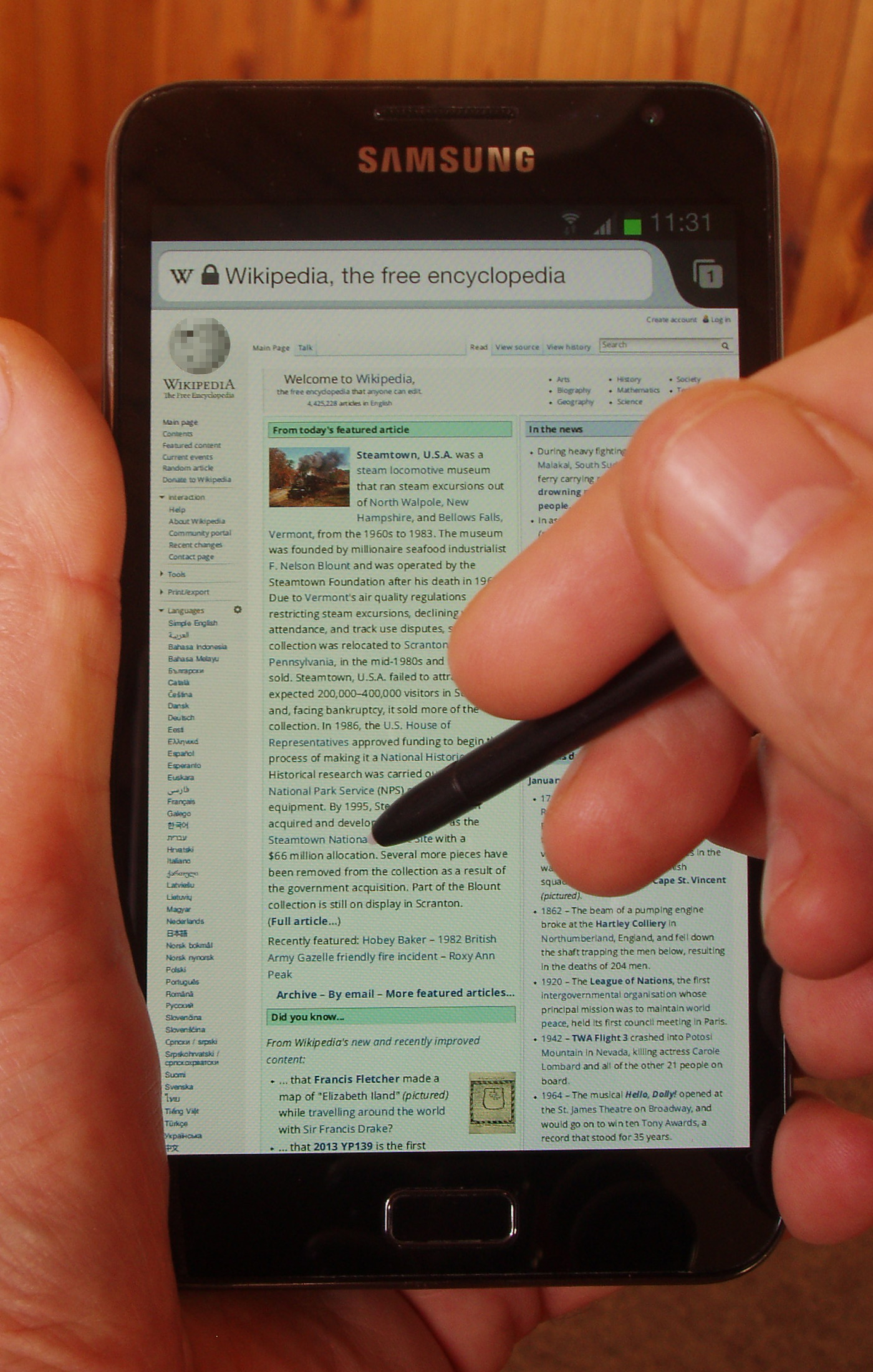 A Samsung Galaxy Note N7000 (original)